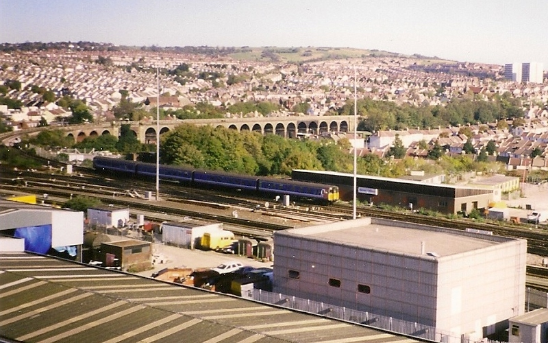 London Road Viaduct, Brighton, City of Brighton and Hove, England, viewed from Howard Place. Looking northeastwards across the throat of Brighton railway station. The train, in Network SouthEast livery and believed to be a 4VEP (British Rail Class 423), is joining the East Coastway line and is about to cross the viaduct. Scanned on 7 March 2009 from a photograph taken in 1996.